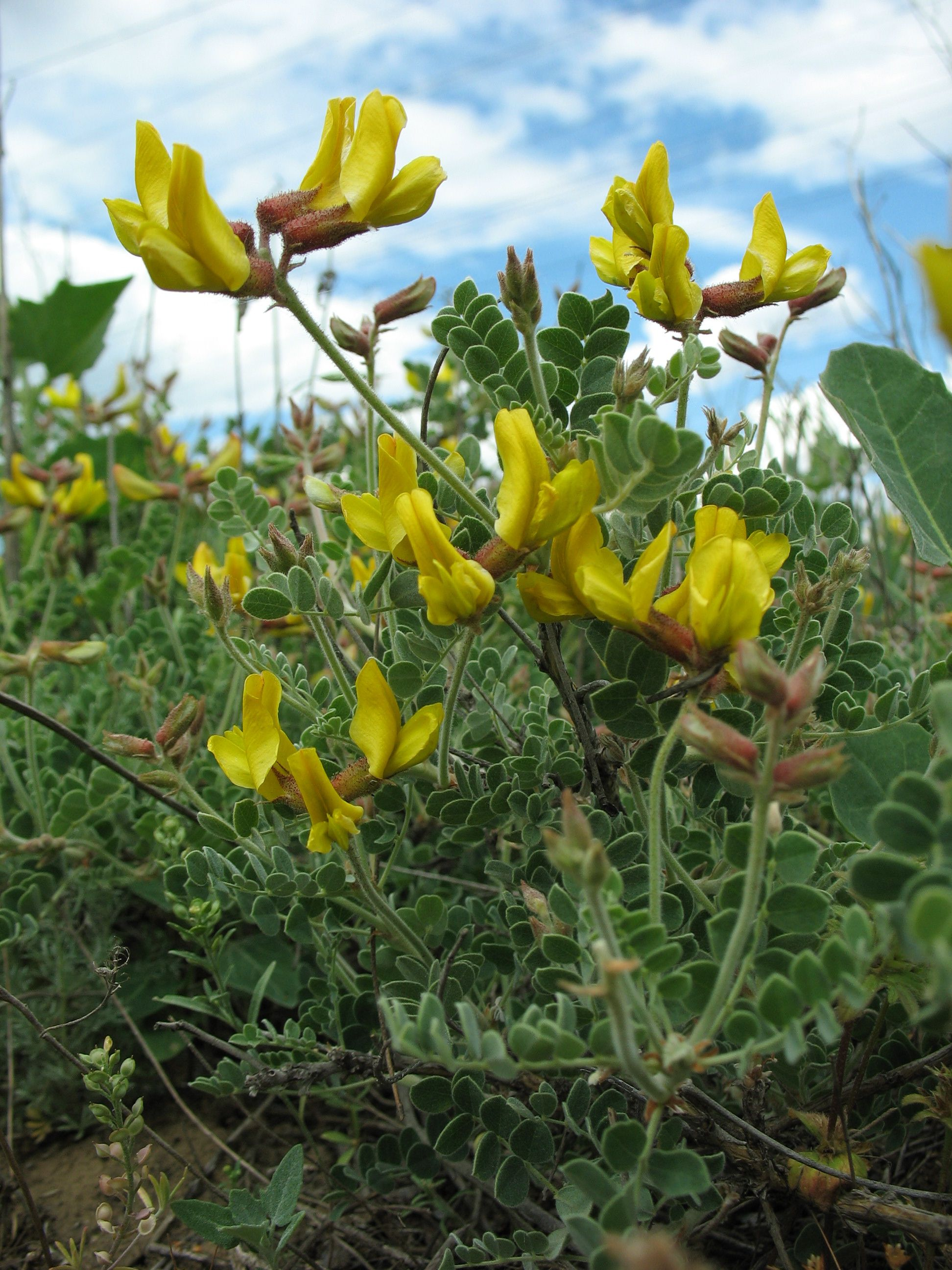 Flowering Calophaca wolgarica near Volga Town, Russia